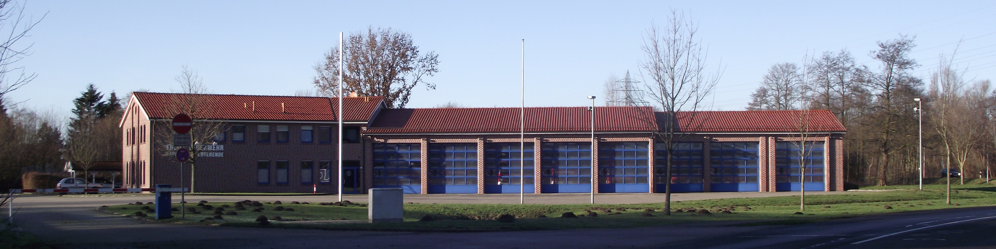 Fire brigade Papenburg Untenende